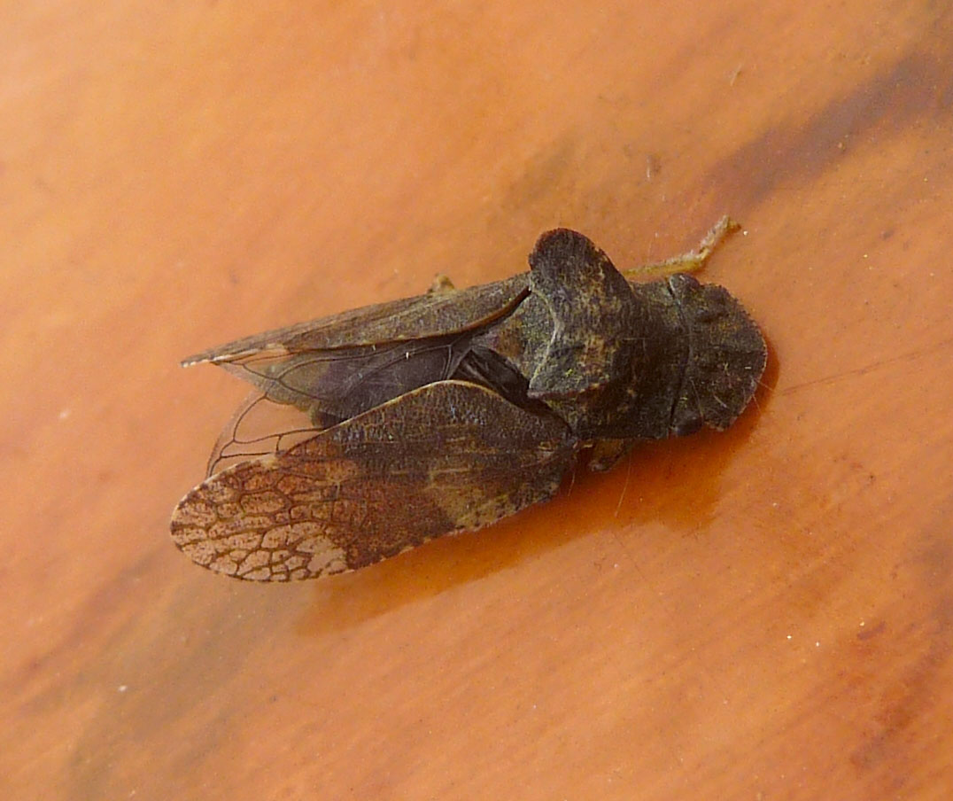 Ledra aurita. Horned Leafhopper